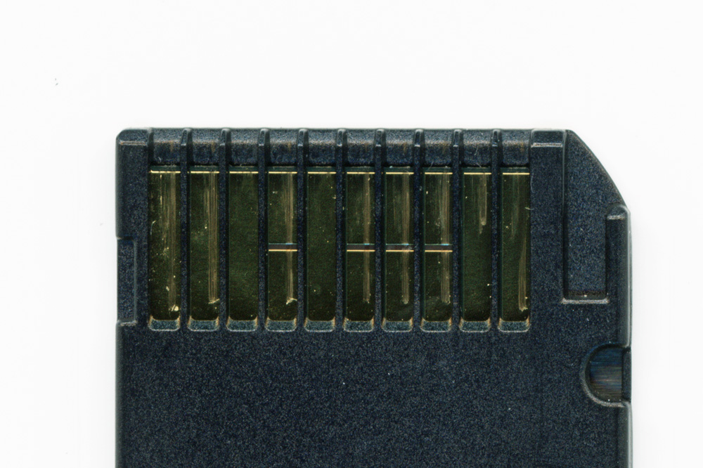 MemoryStick_PRO-HG connector pins